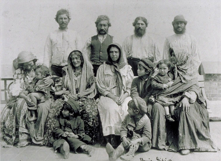 1917 black and white halftone print of a group of Serbian Gypsies, immigrated to the United States. Photography by Augustus Sherman.